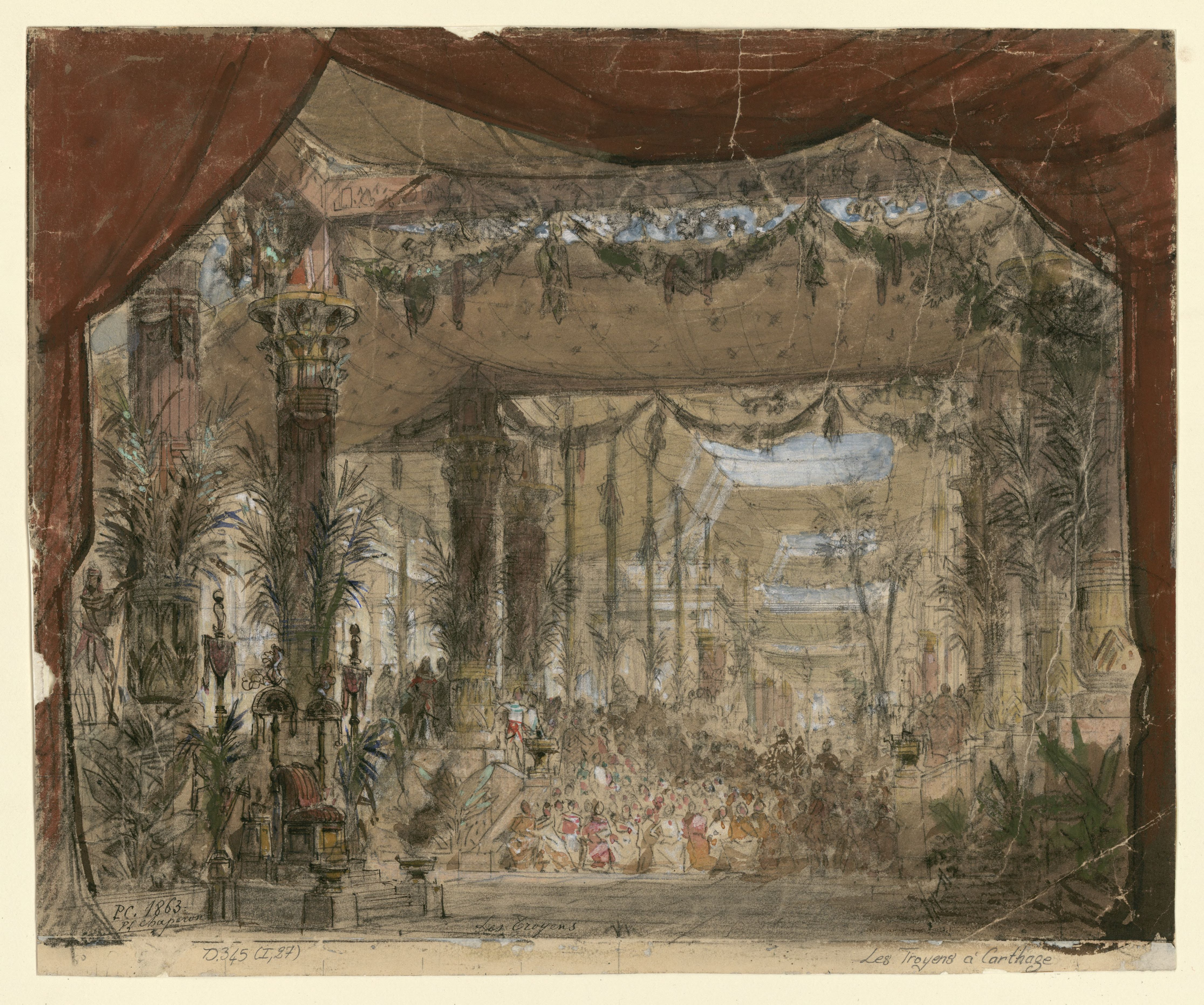 Stage design for the throne room in Dido's palace for the premiere of Berlioz's Les Troyens à Carthage (Act 1) at the Théâtre Lyrique on 4 November 1863.